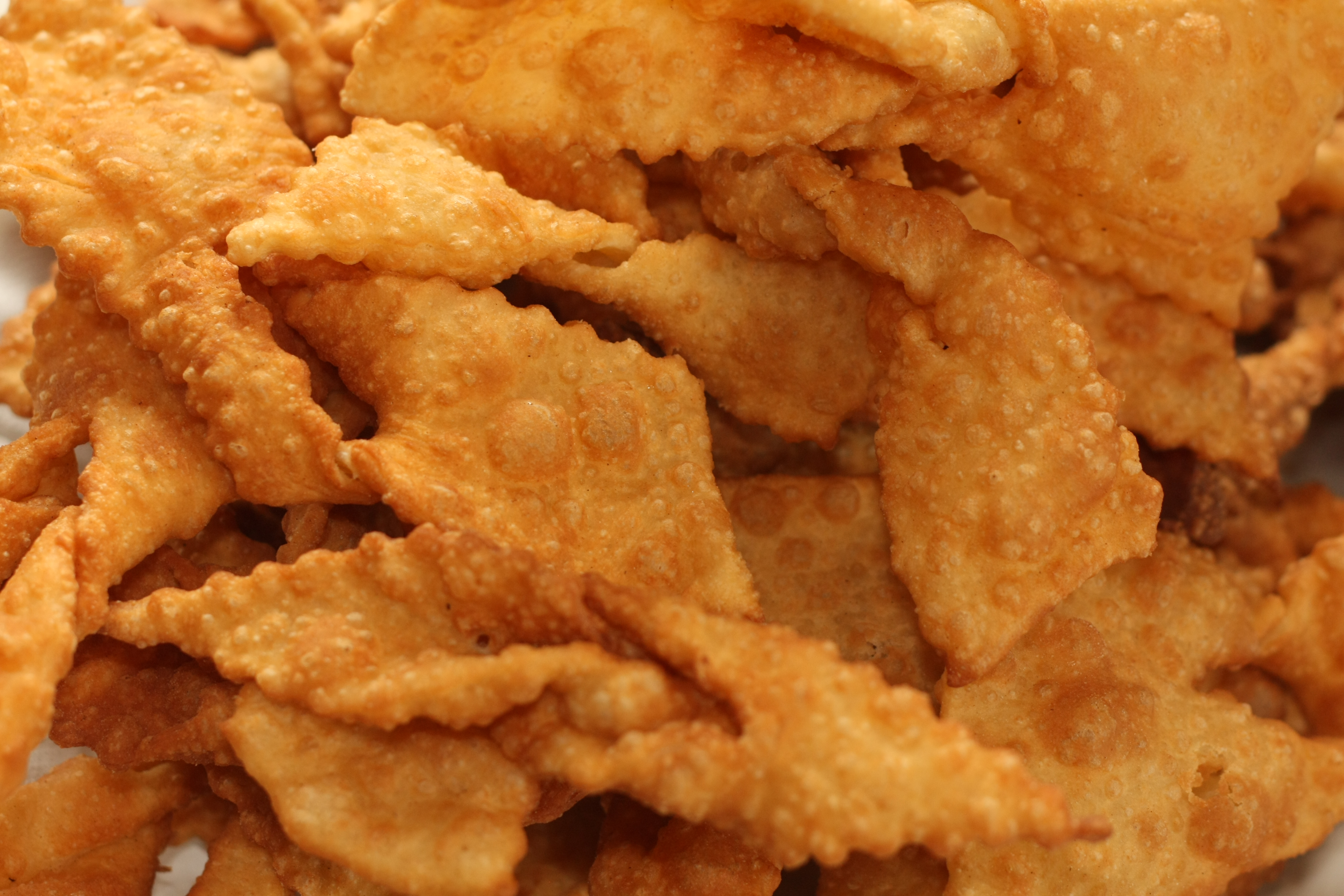 Angel wings.